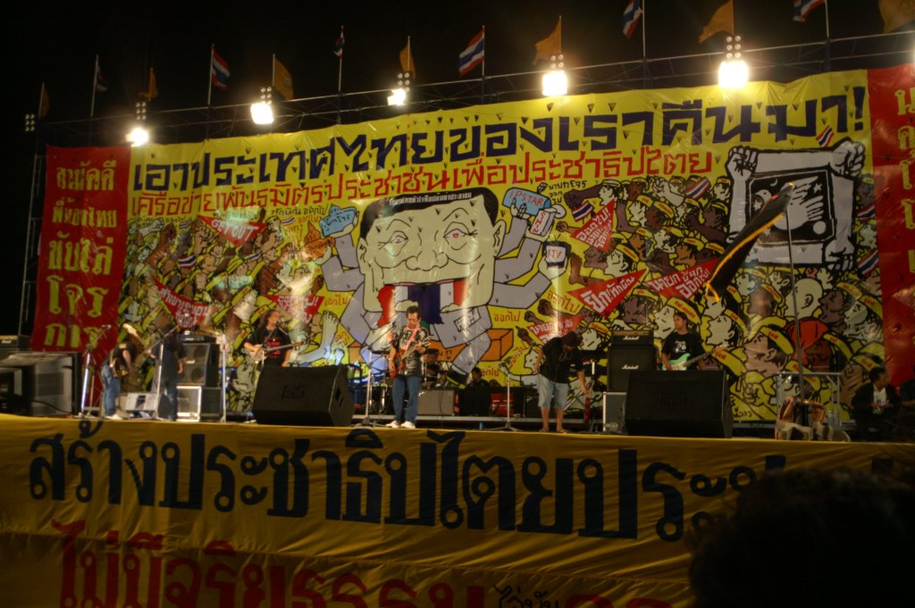 Wong (center left) and Nga (center) of Caravan. Tonight's protests are more like a rock concert!